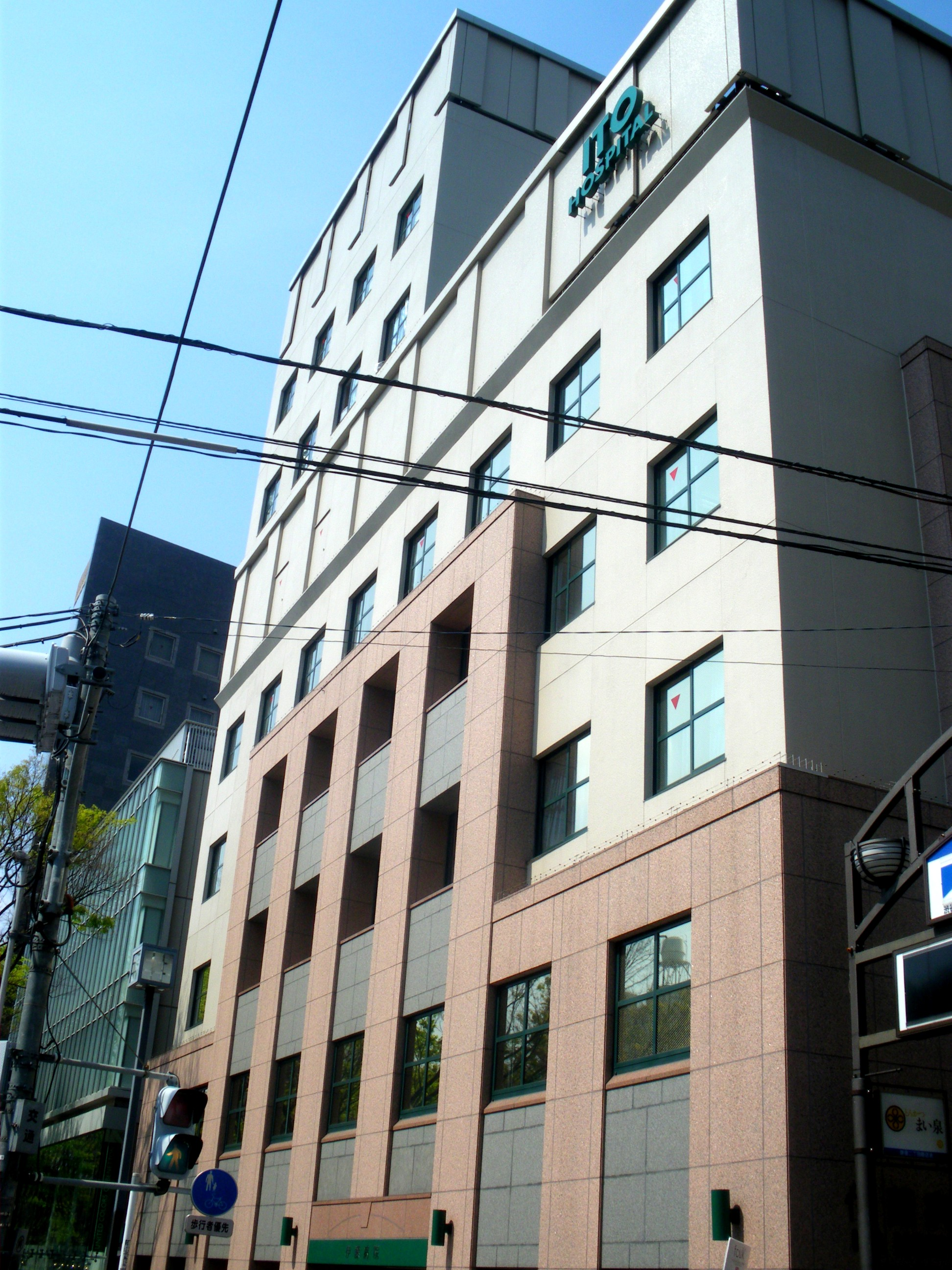 ITO Hospital(Jingumae,Shibuya,Tokyo)